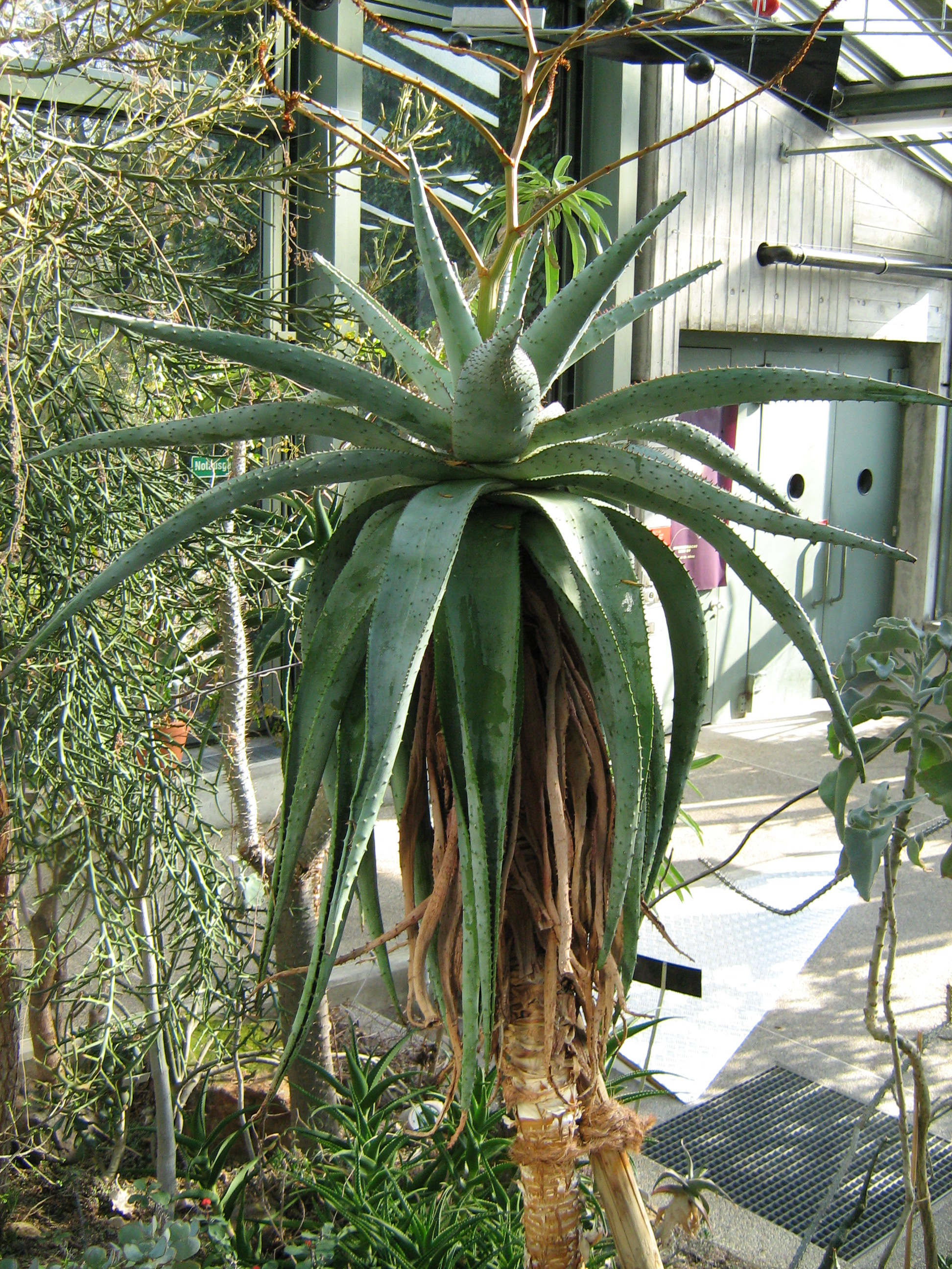 Aloe africana in the botanic garden of Berne